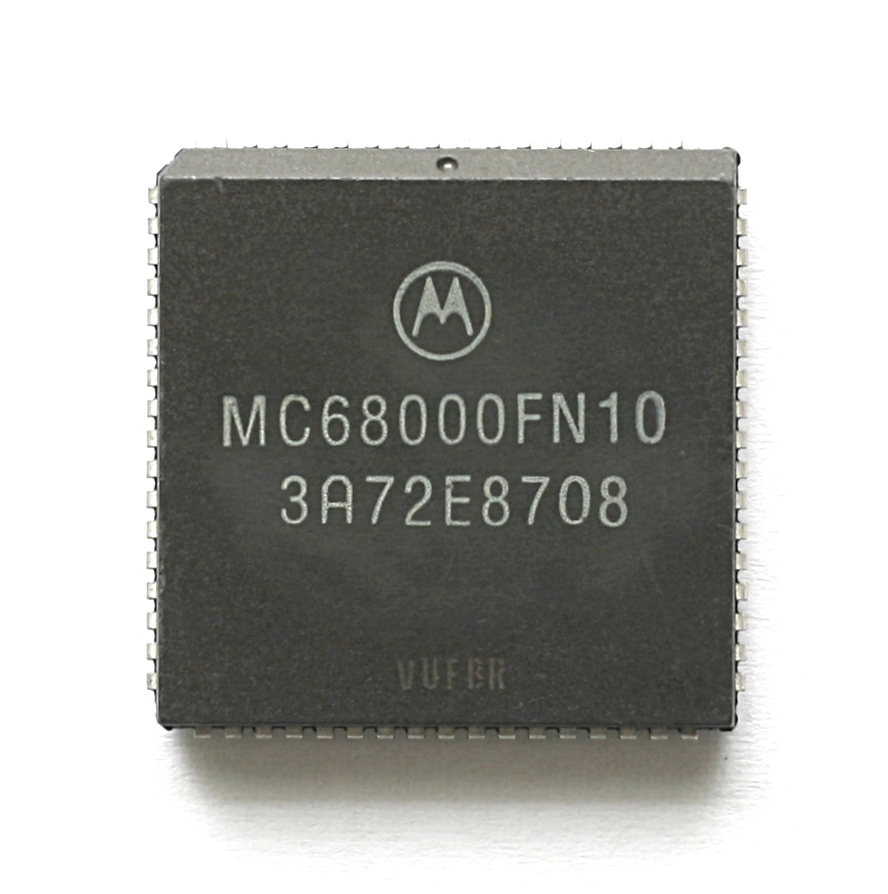 CPU Motorola MC68000 PLCC